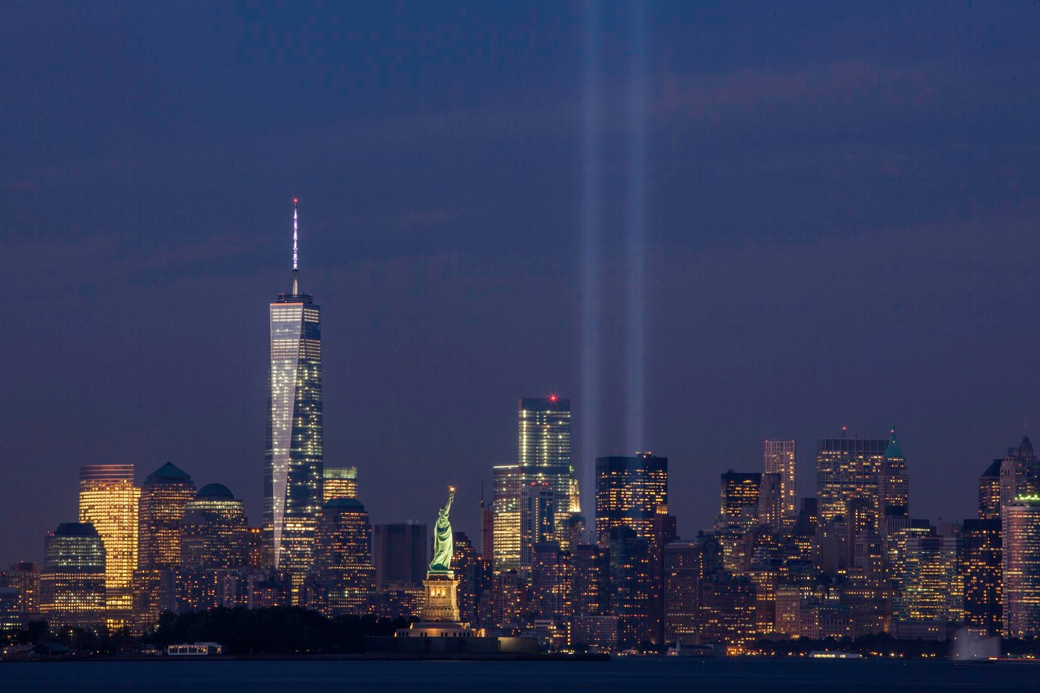 September 11th Tribute in Light from Bayonne, New Jersey.